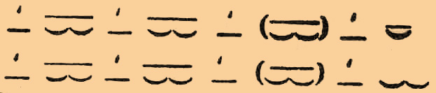 Illustration from Brockhaus and Efron Encyclopedic Dictionary (1890—1907)